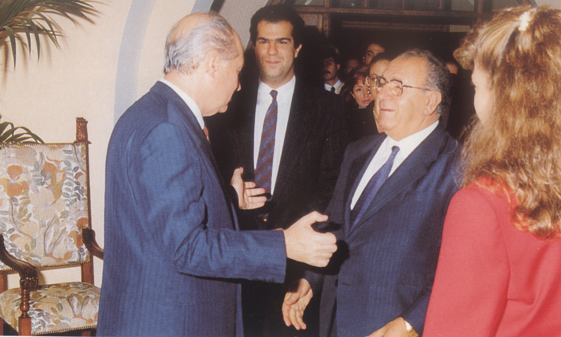 Stelios at Cyprus Maritime conference 1990